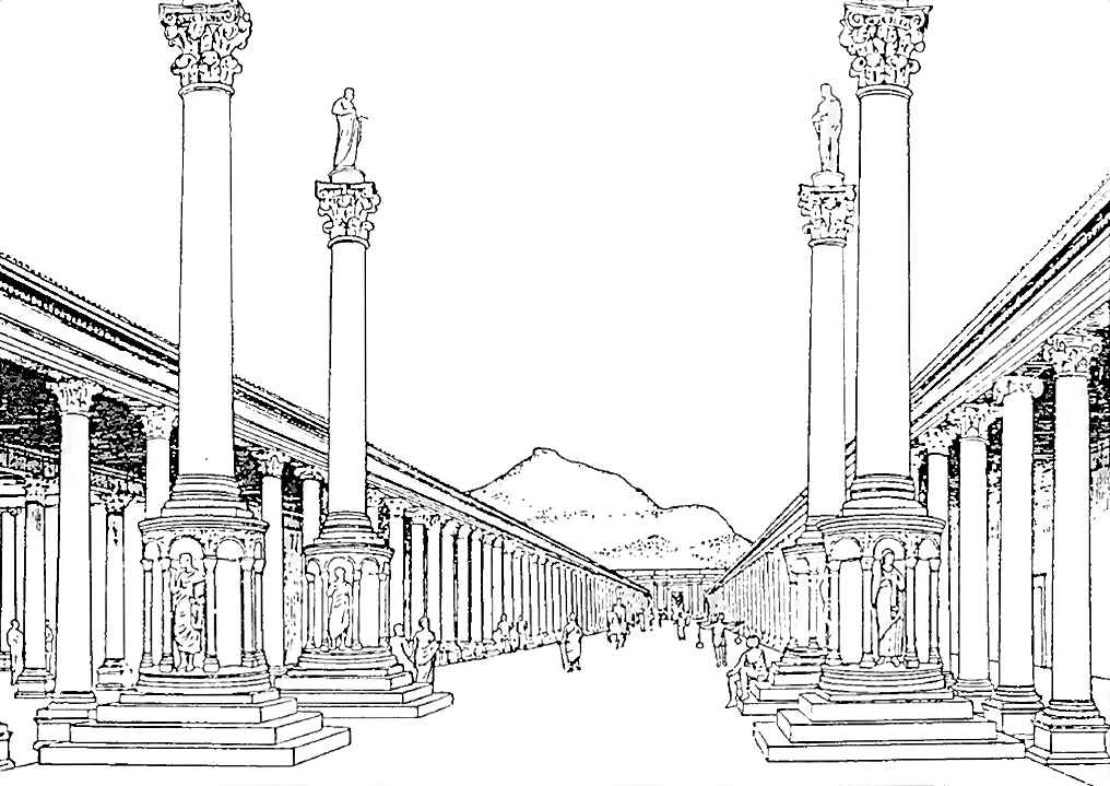 Tetrakionion on Arcadian Avenue, Ephesus. Graphical reconstruction.